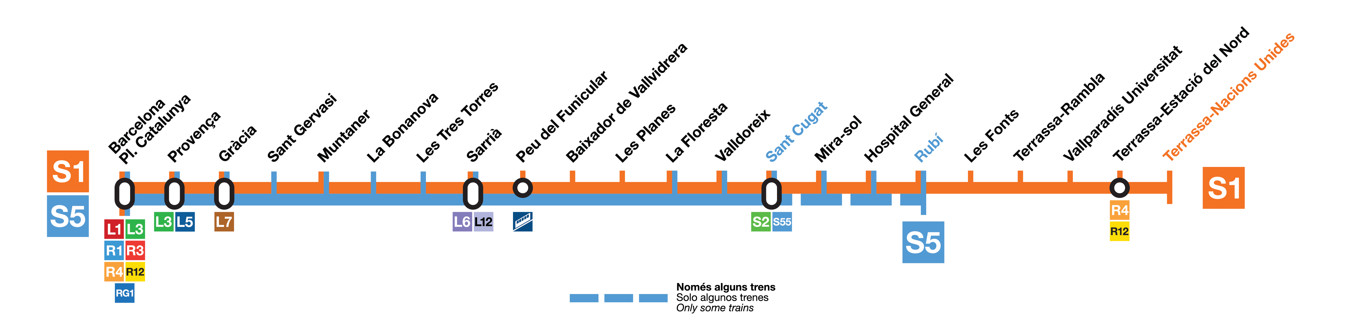 Barcelona–Terrassa railway lines S1 and S5